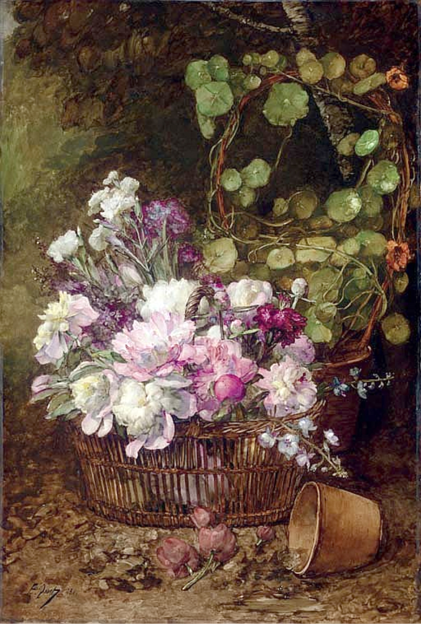 A basket filled with peony roses, carnations and delphinium